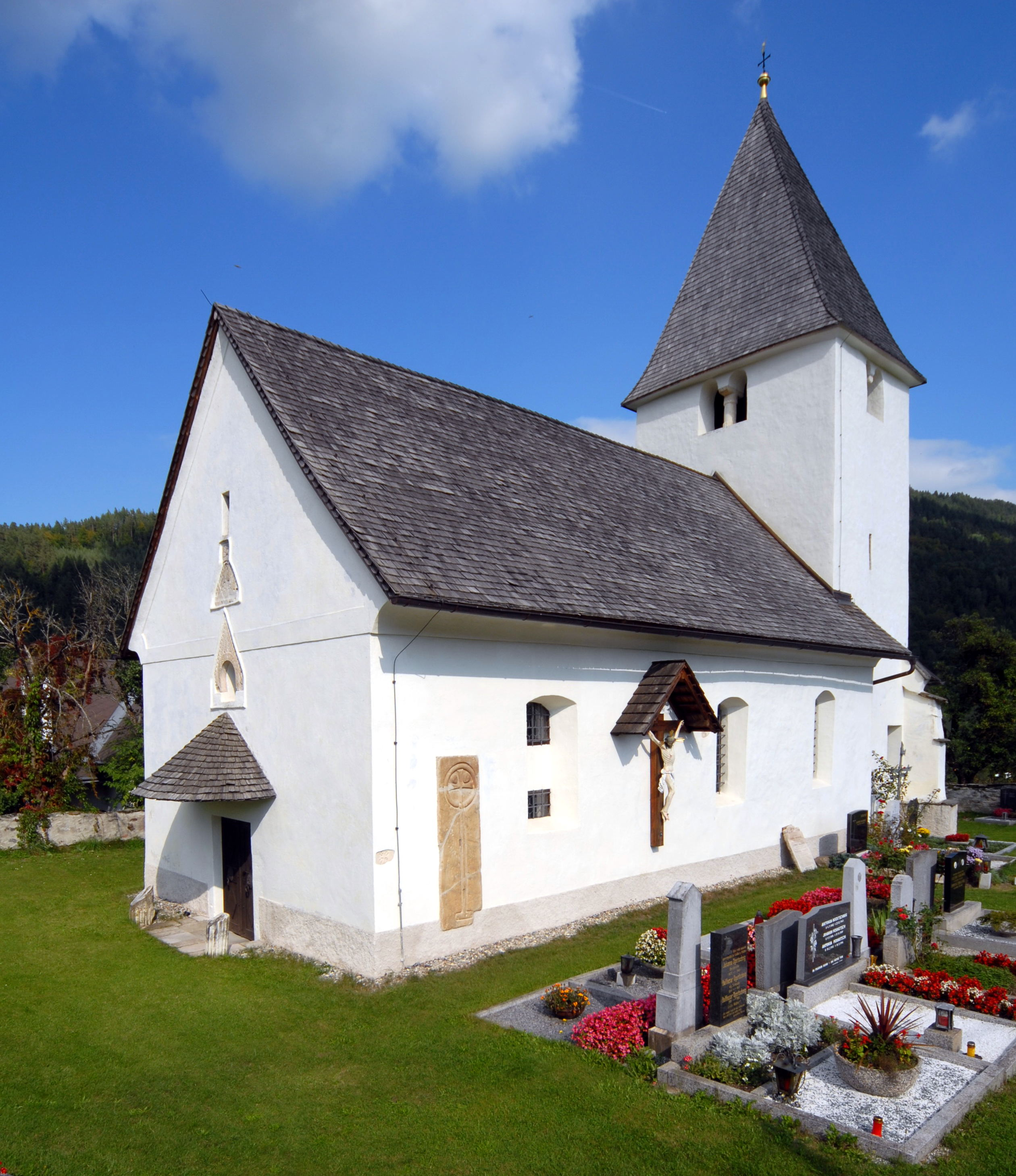 Subsidiary church “Saint Peter on the Bichl”, 14th district “Woelfnitz”, Carinthian capital Klagenfurt am Wörthersee, Carinthia / Austria / EU